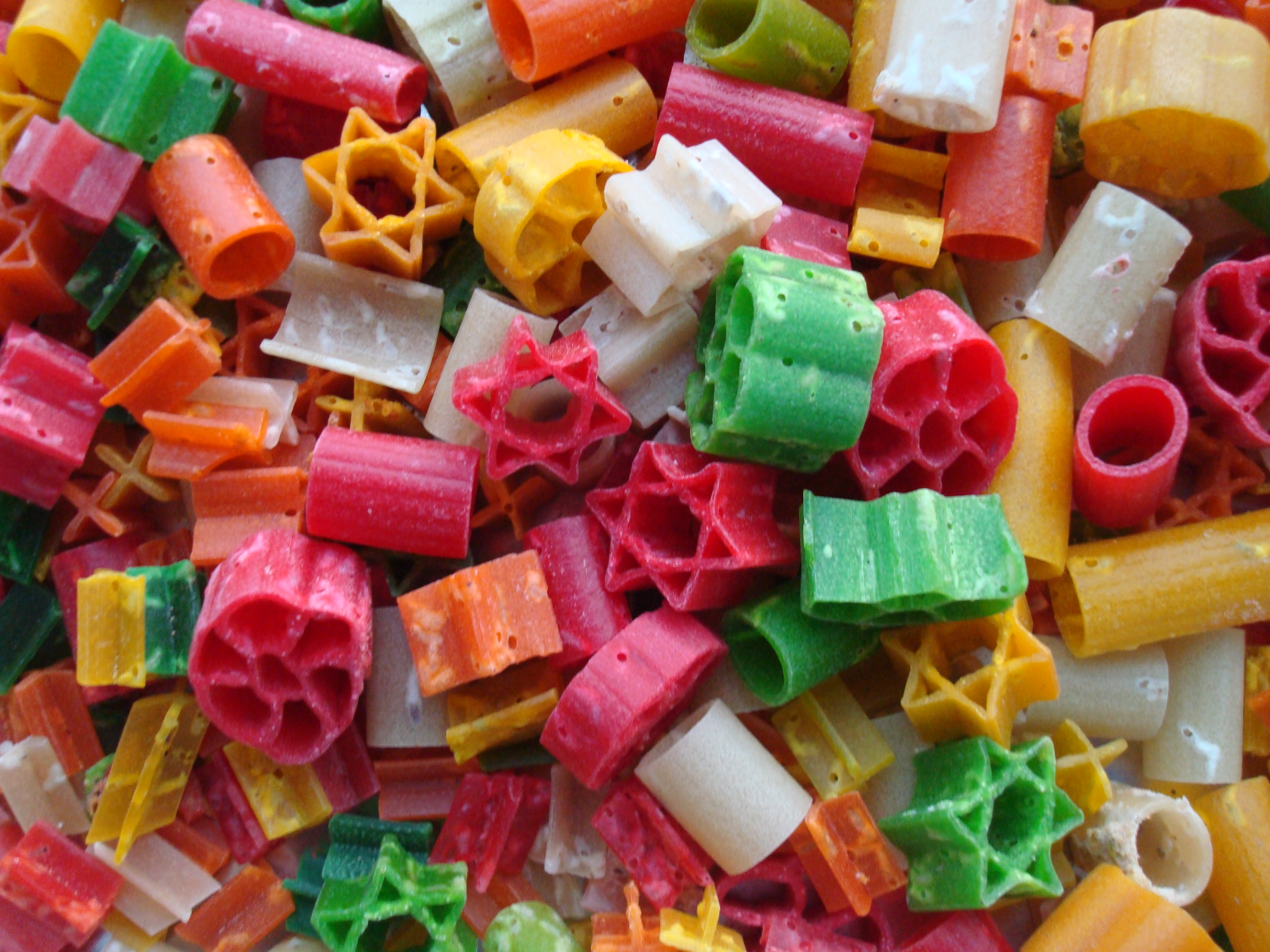 Fryums are crunchy small snacks that are deep fried.